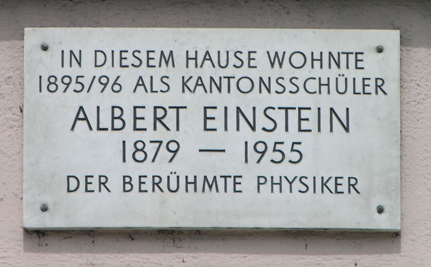 Memorial plate at the house, where Einstein lived 1895/1896 in Aarau